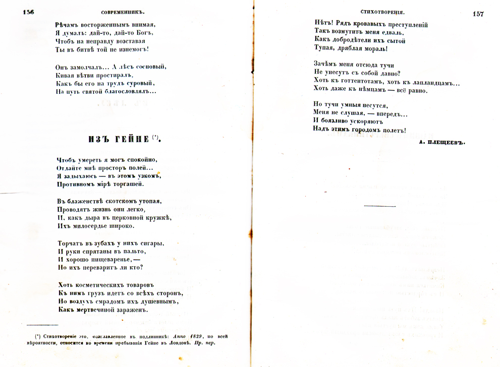 Poems of Alexey Pleshcheyev